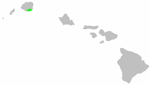 Known world distribution of Adelocosa anops (Lycosidae) - Kauai, Hawaii Locator for this distribution map .